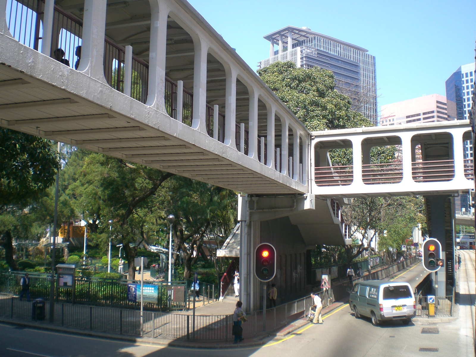 北角zh:英皇道電照街人行天橋 Footbridge at the intersection of Tin Chiu Street and King's Road.